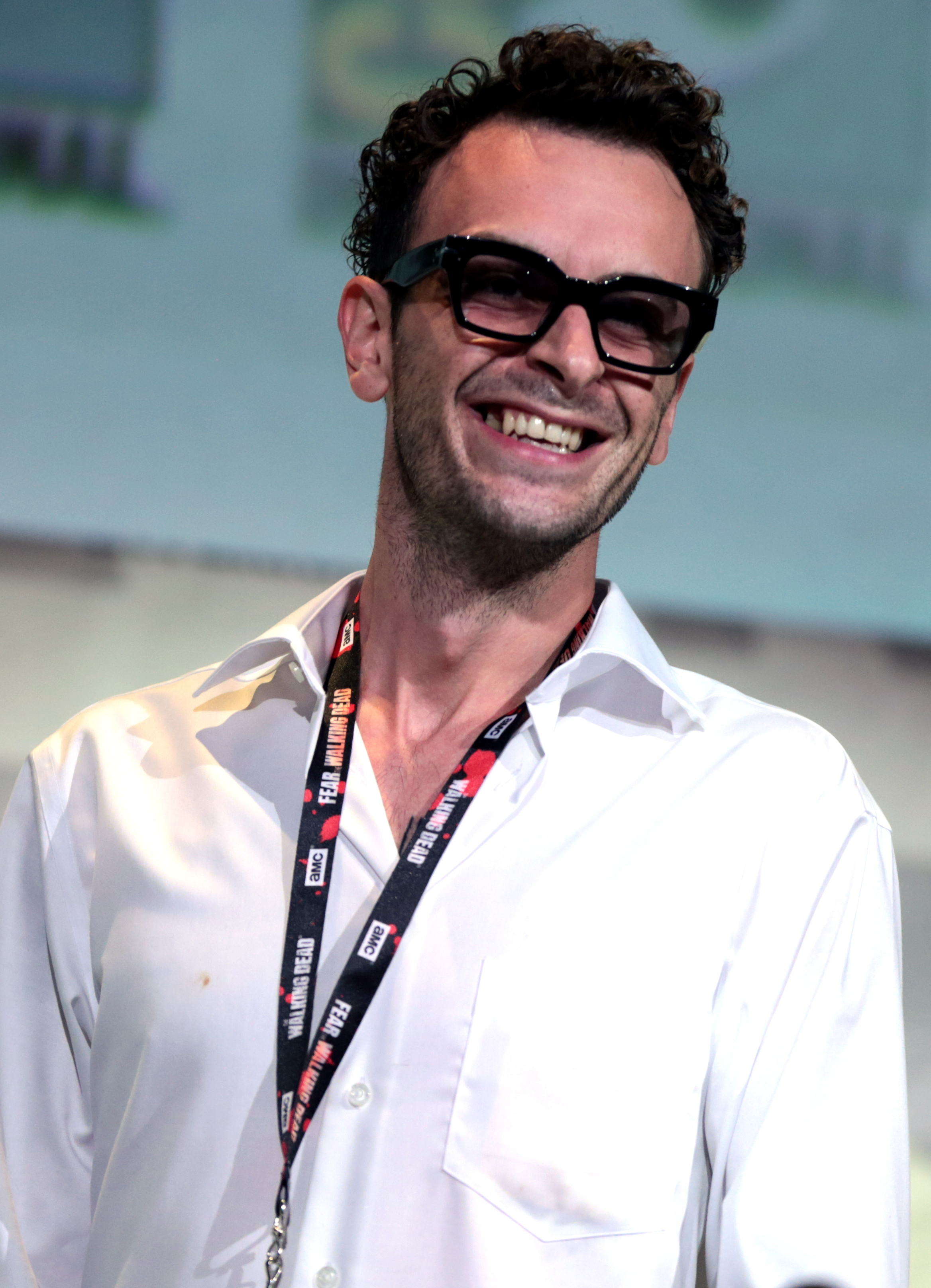 Joe Gilgun speaking at the 2016 San Diego Comic-Con International in San Diego, California.